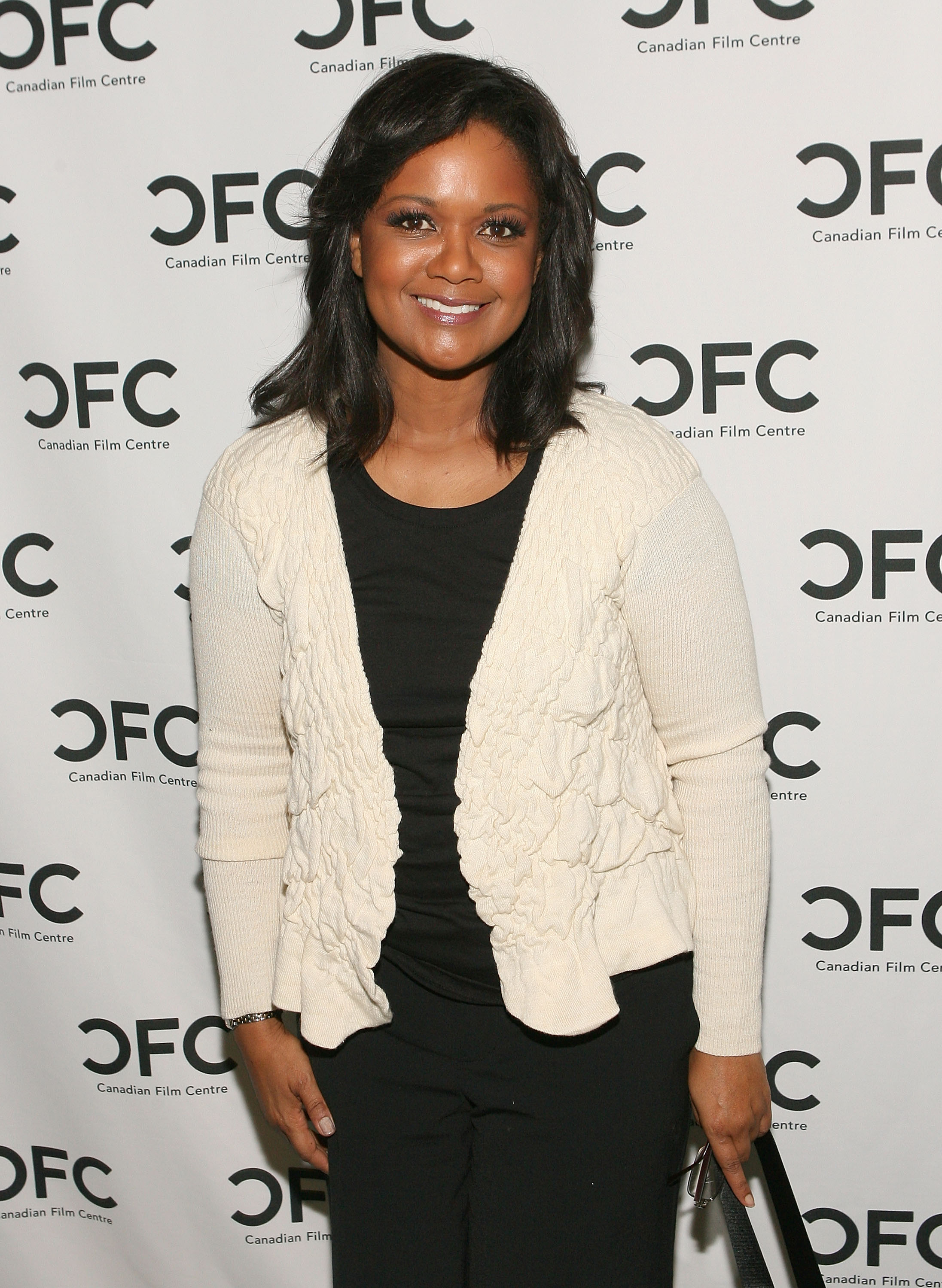 The actress Tonya Lee Williams attends The Canadian Film Centre cocktail reception celebrating the Telefilm Canada Features Comedy Lab held at Avalon Hotel on March 9, 2011 in Beverly Hills, California.